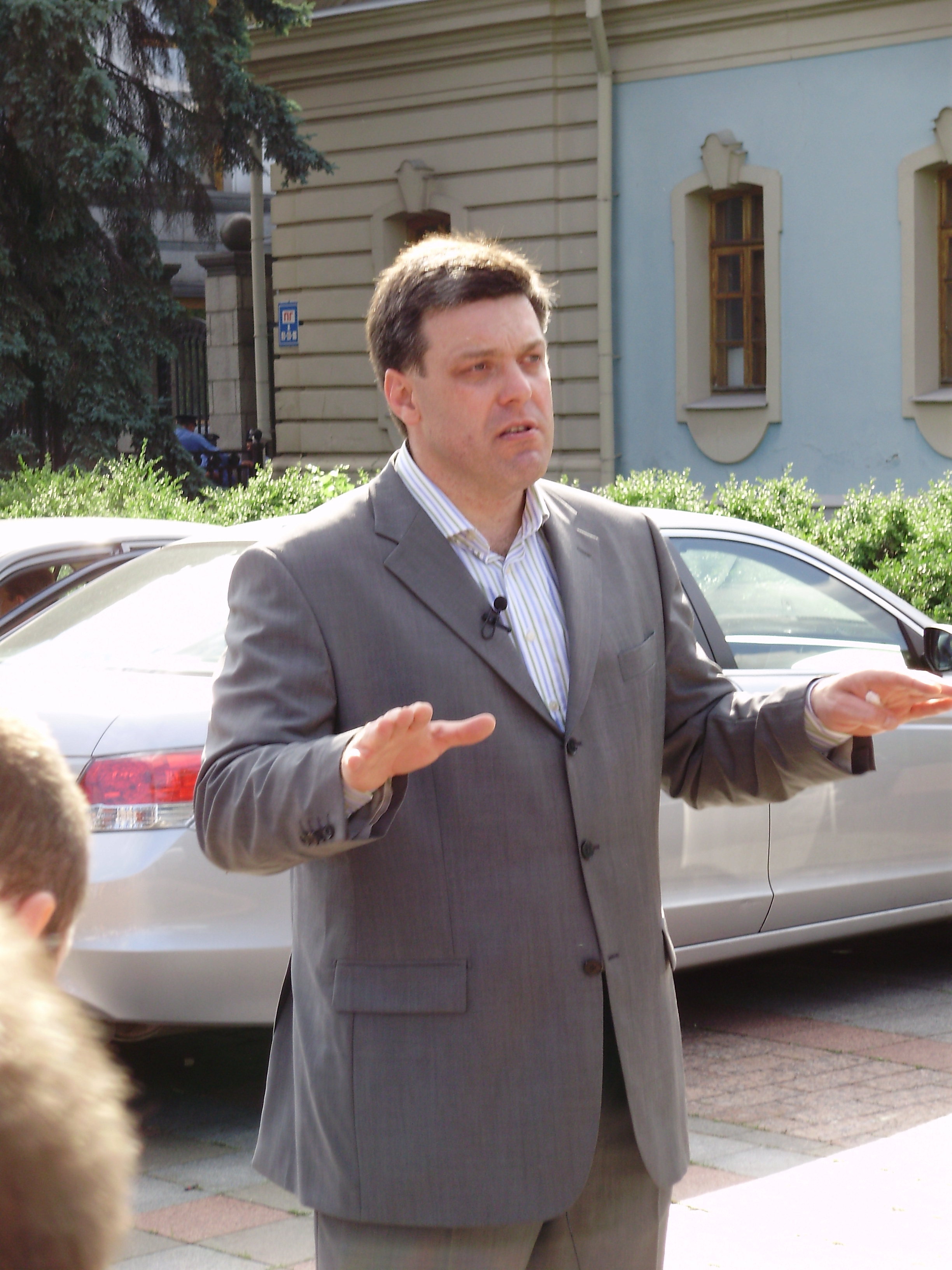 Oleh Tiahnybok.